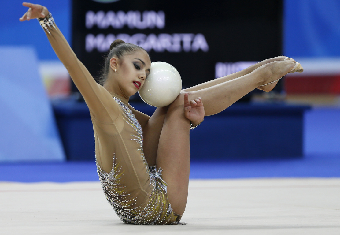 Margarita Mamun competing at the 2013 Summer Universiade